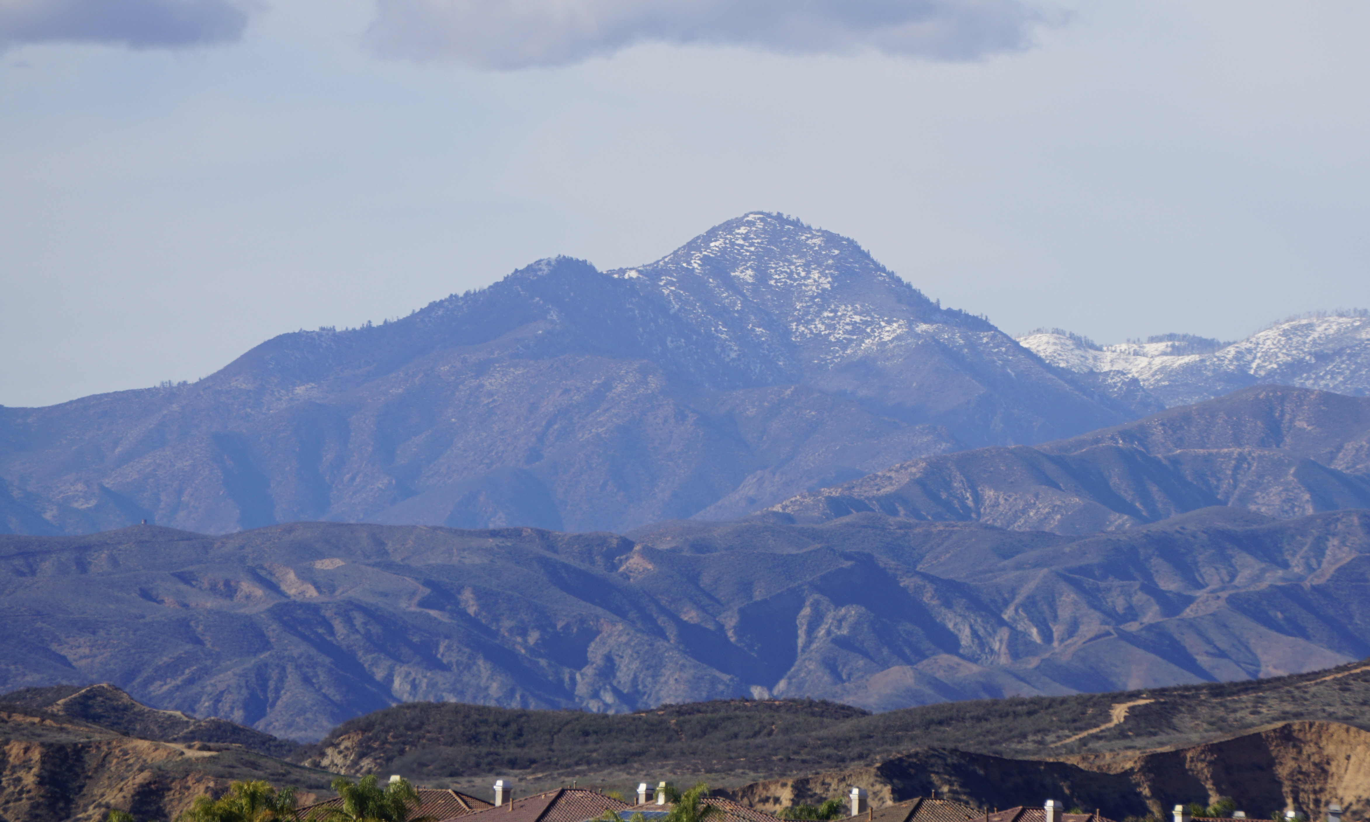 Cobblestone Mountain's eastern facade from Santa Clarita.